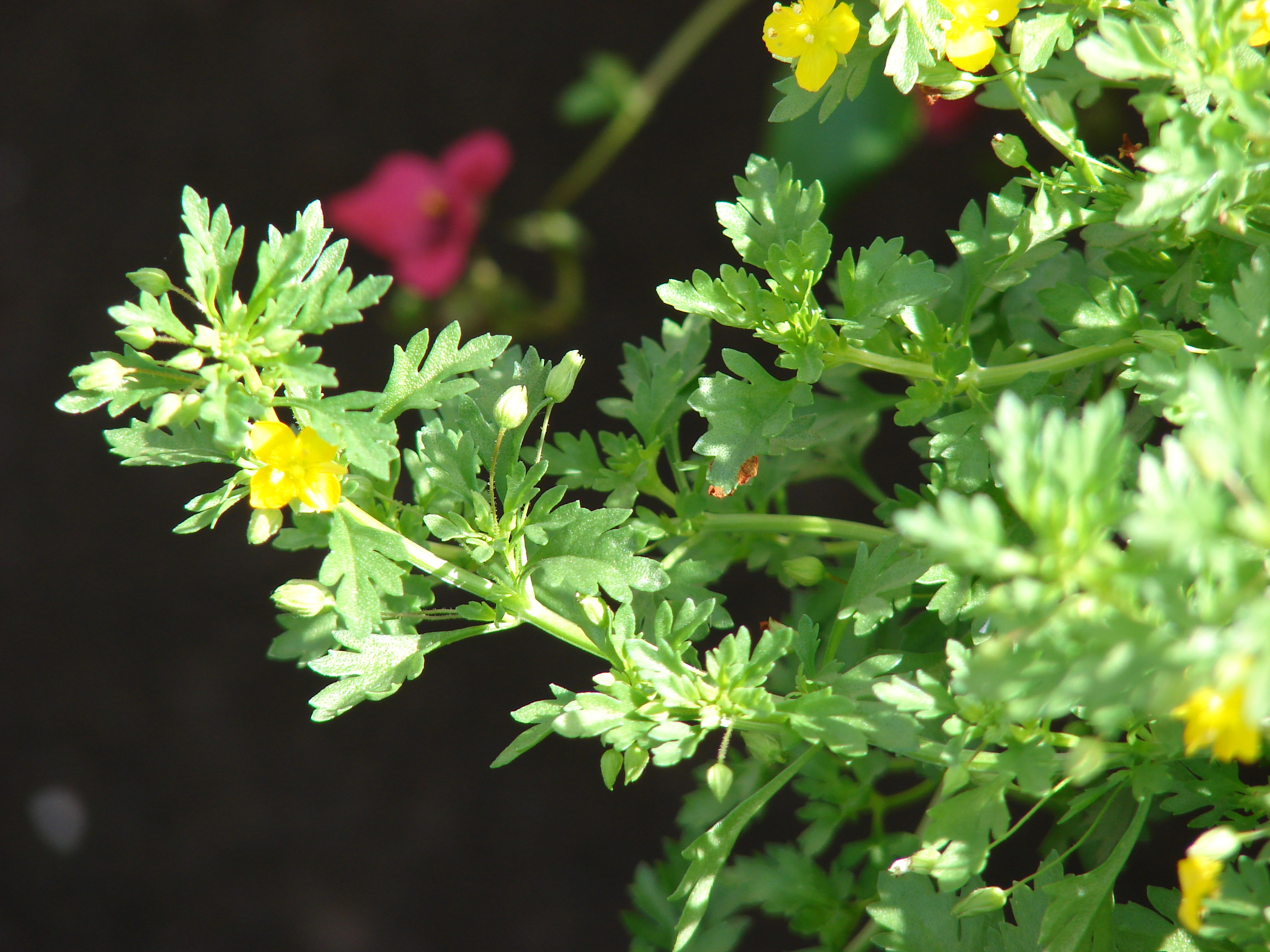 Scoparia sp. (Melongolly yellow flowers and leaves). Location: Maui, Kula Ace Hardware and Nursery